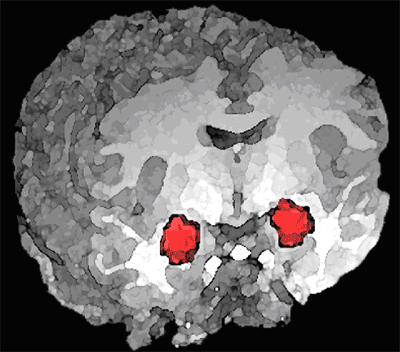 Brain cut showing the amygdala inside. The original is in GIF format, so i has been exported as PNG before uploading